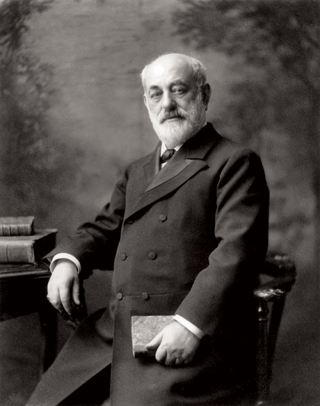 Marcus Goldman (1821-1904)